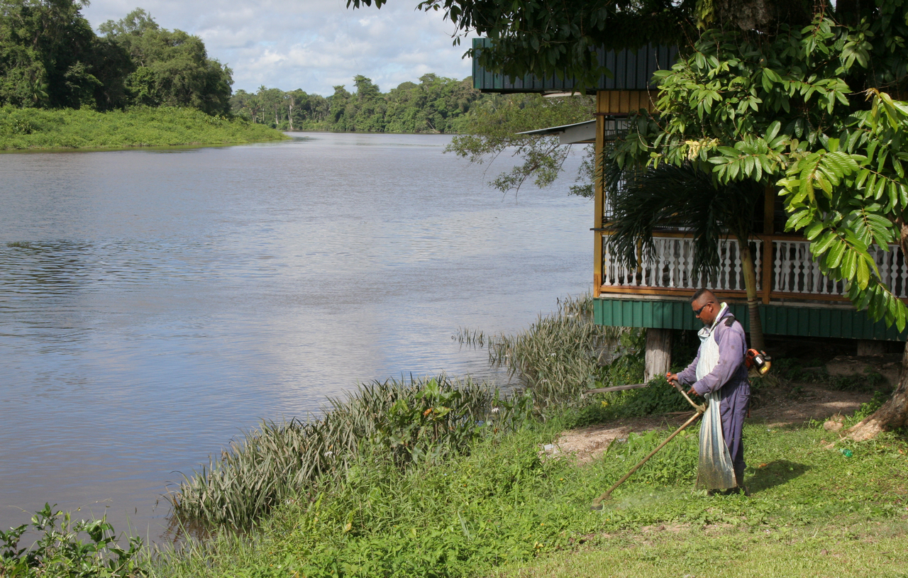 On the road to Nieuw Nickerie and Bigi Pan Nature Reserve, Suriname. Groningen.